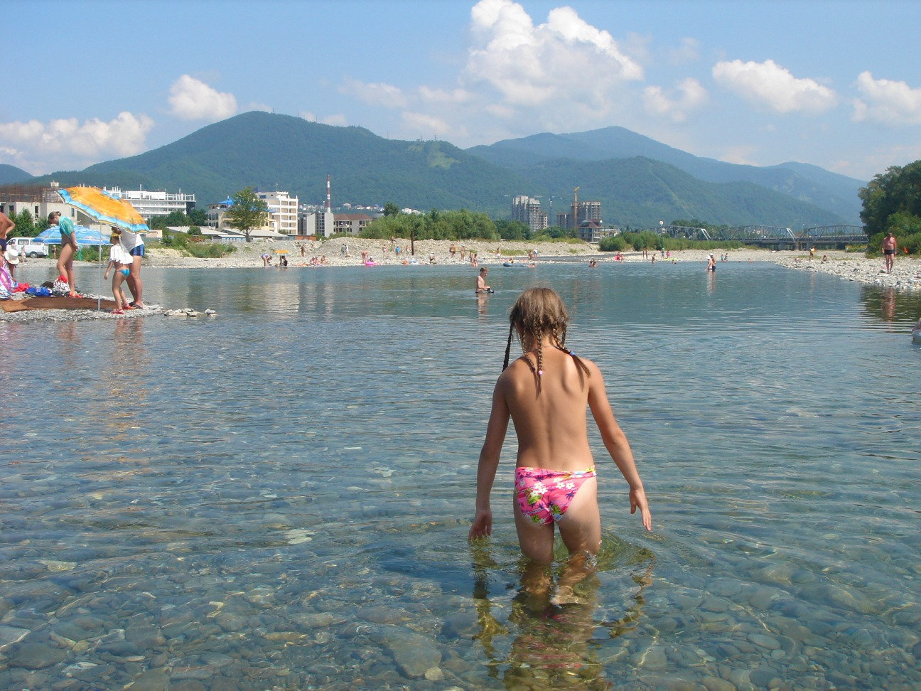 River Psezuapse in Lazarevskoe from sea side. Река Псезуапсе в месте впадения её в Чёрное море.